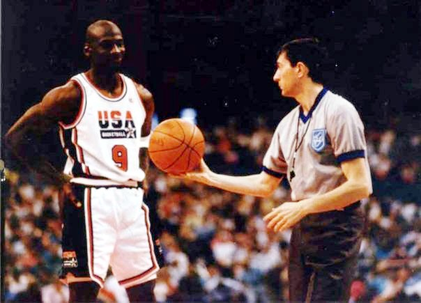 Referee Stefano Cazzaro hands a basketball to Michael Jordan during the Summer Olympics held in Barcelona.